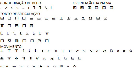 ELiS' visographems.